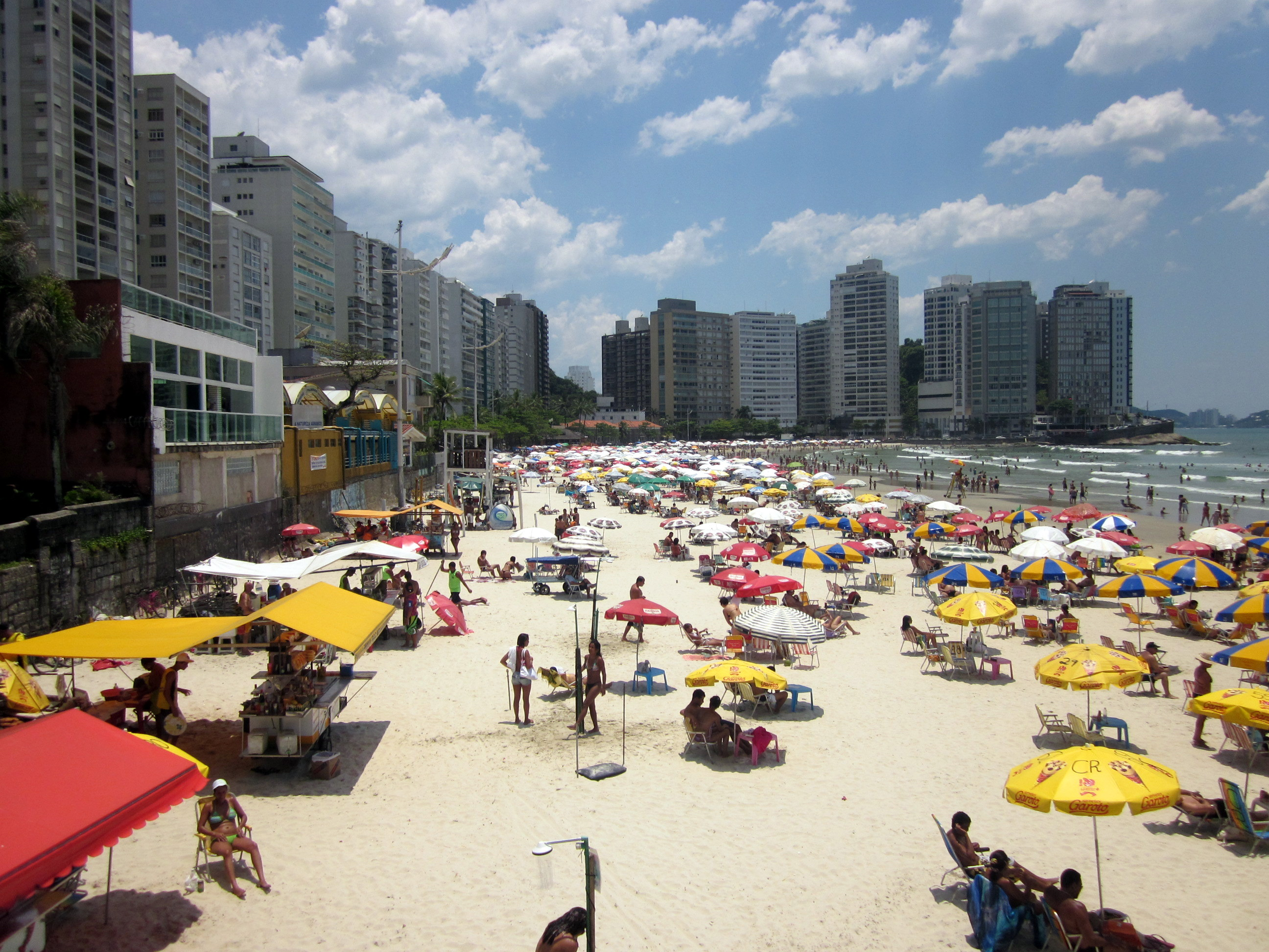 Praia de Pitangueiras, Guarujá. Praia de Pitangueiras, Guarujá, Guarujá.